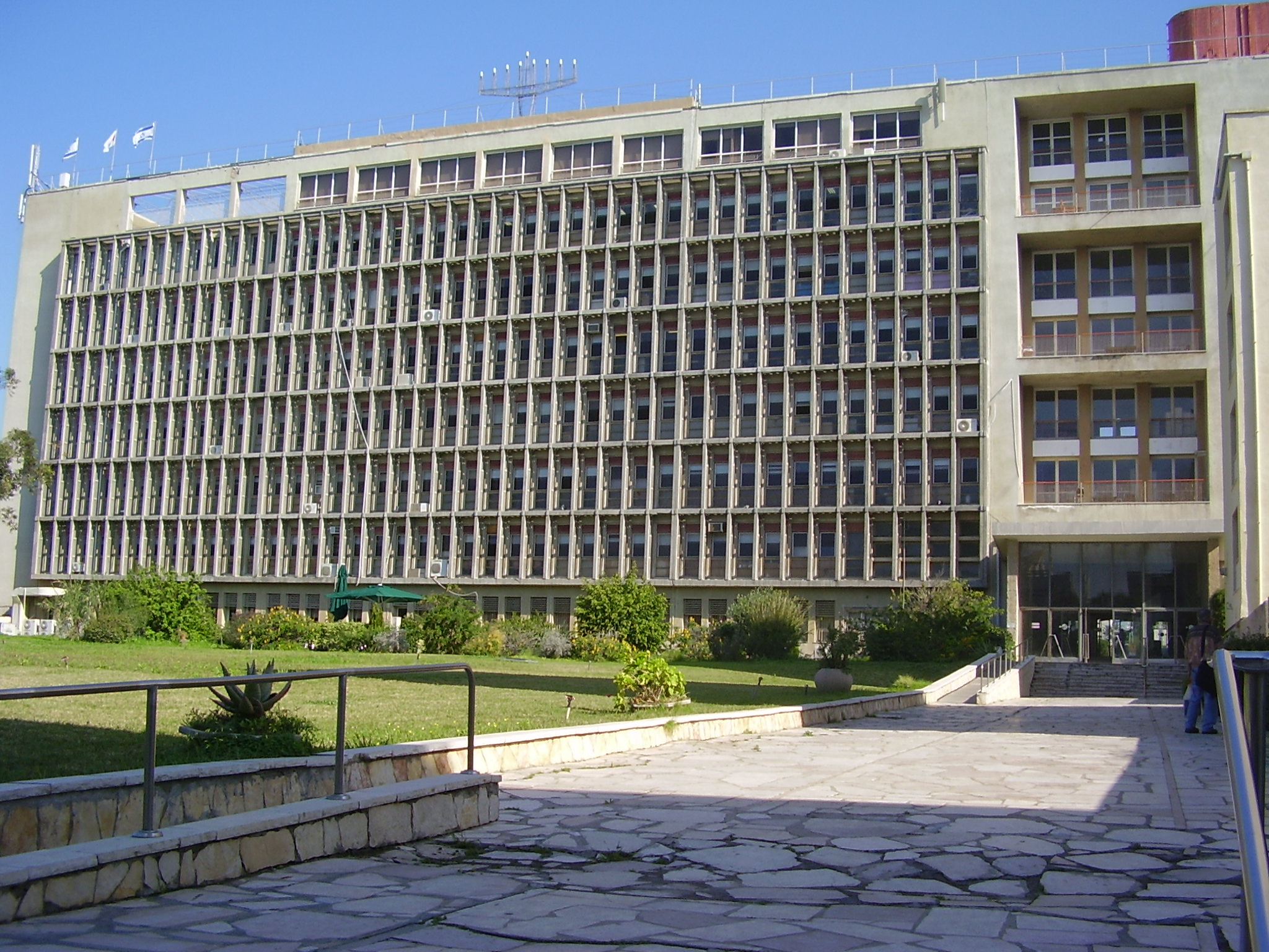 Histadrut House in Tel Aviv